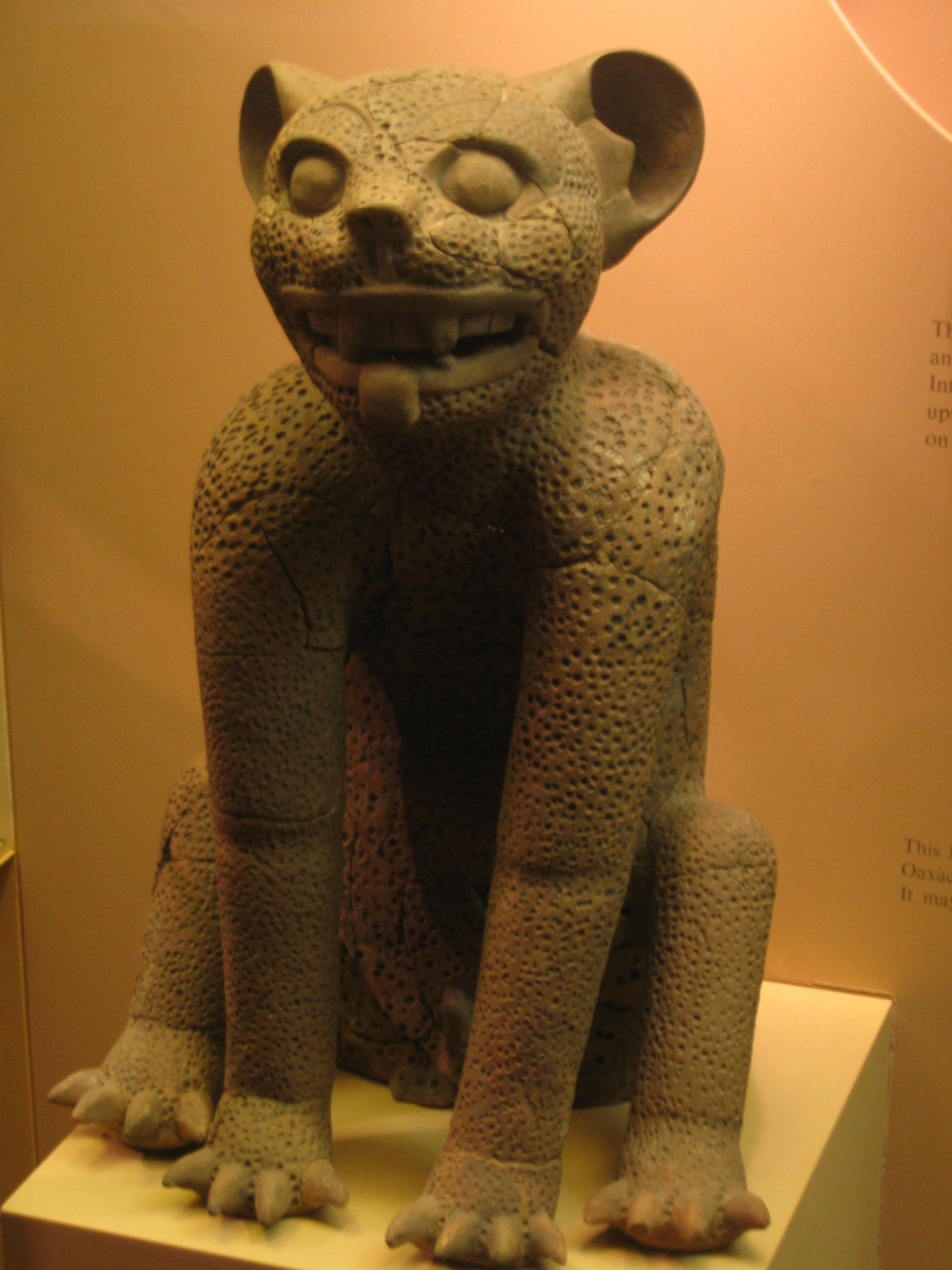 Clay jaguar statue from Monte Alban, in present-day Oaxaca. On display at the American Museum of Natural History, New York City. Height: 56 cm (22 in). From Monte Alban, periods I - III (200 B.C.E.- 600 C.E.)